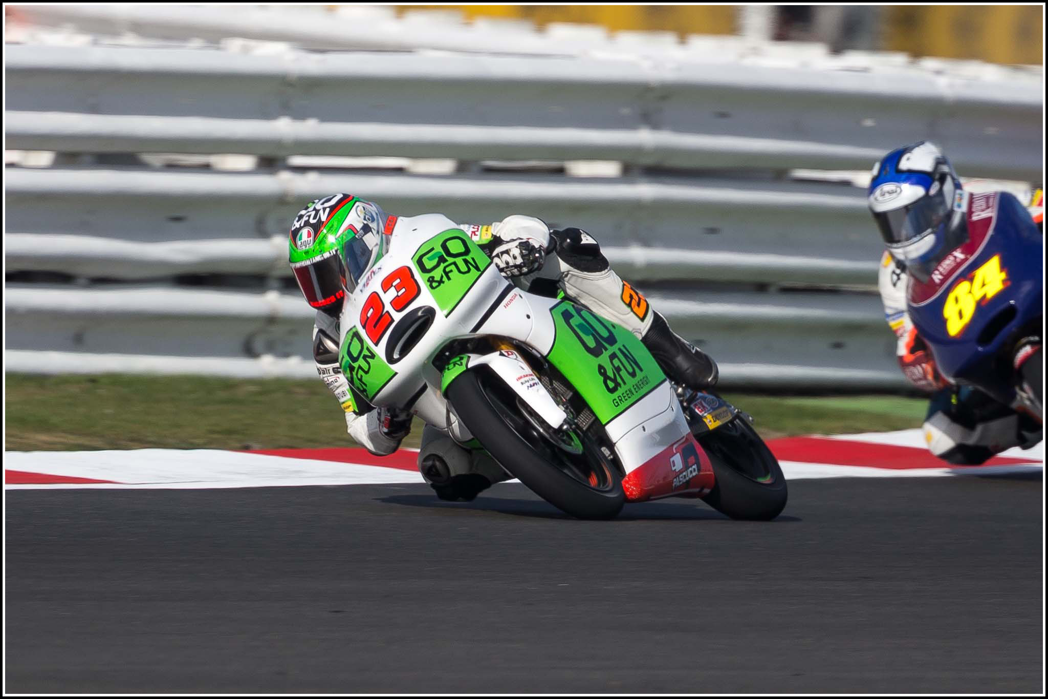 Niccolo Antonelli (#23) and Jakub Kornfeil (#84), Moto3 Practice at Silverstone 31st August 2013, British Grand Prix